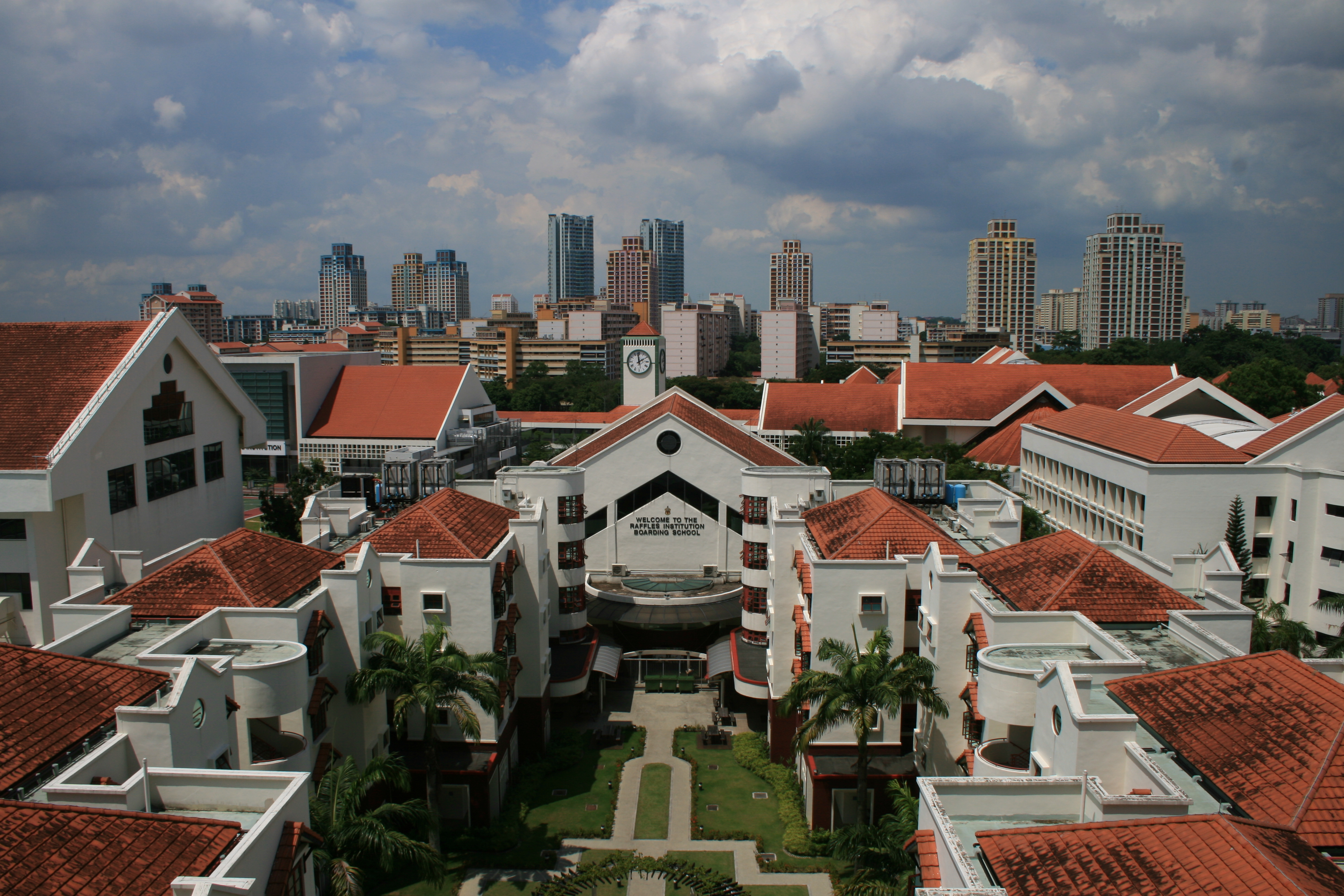 Aerial view of the Year 1–4 campus (the Co-curricular Activity (CCA) block, clock tower, Administration Block, Junior Block, ArtSpace and Boarding Complex) taken from the eighth floor of the Hullett block.